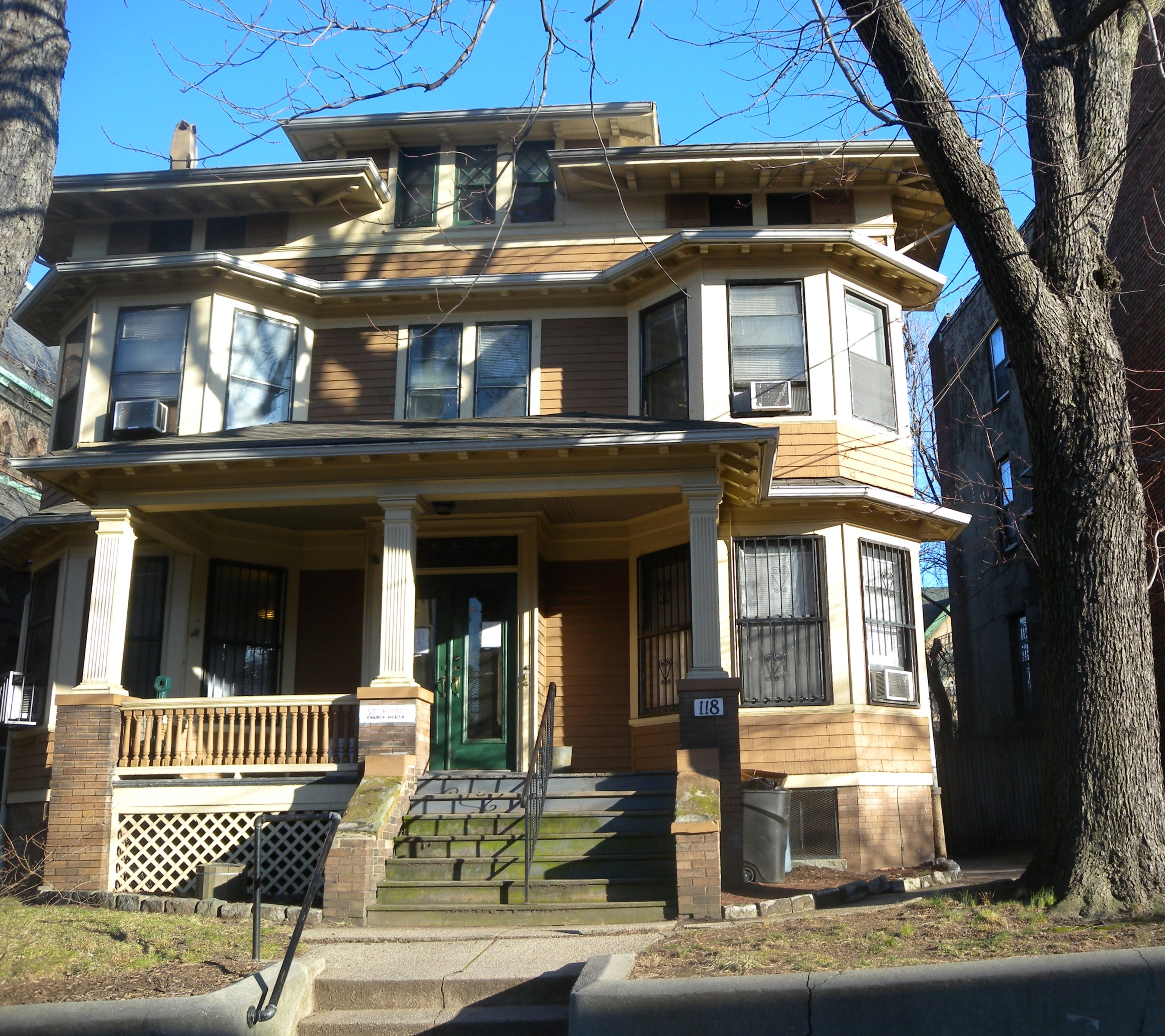 Looking east across Summit Avenue at St John's church house on a sunny afternoon.